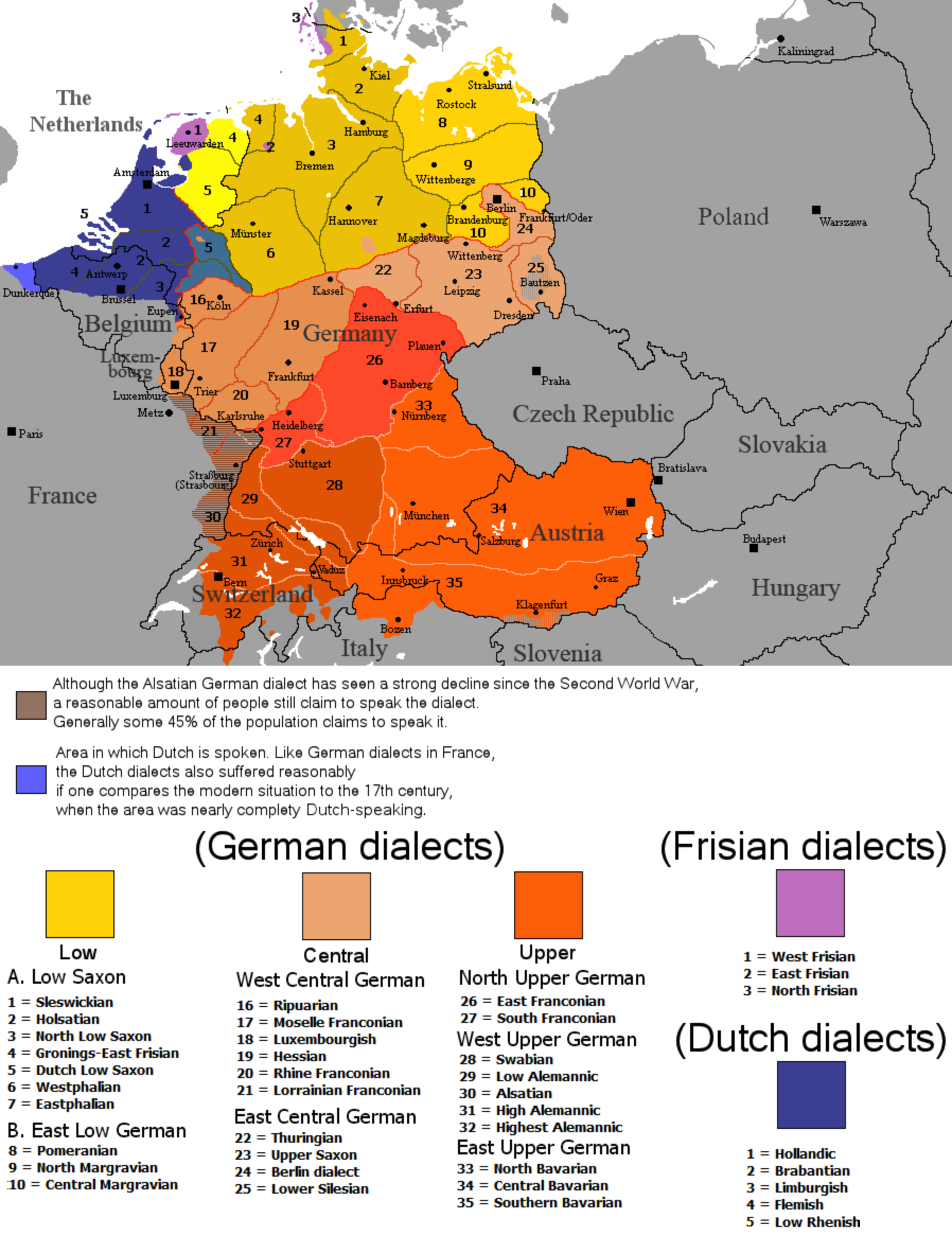 The dialectal ranges (not those of standard languages!) of the Continental West Germanic languages (Dutch/Frisian/German) after 1945